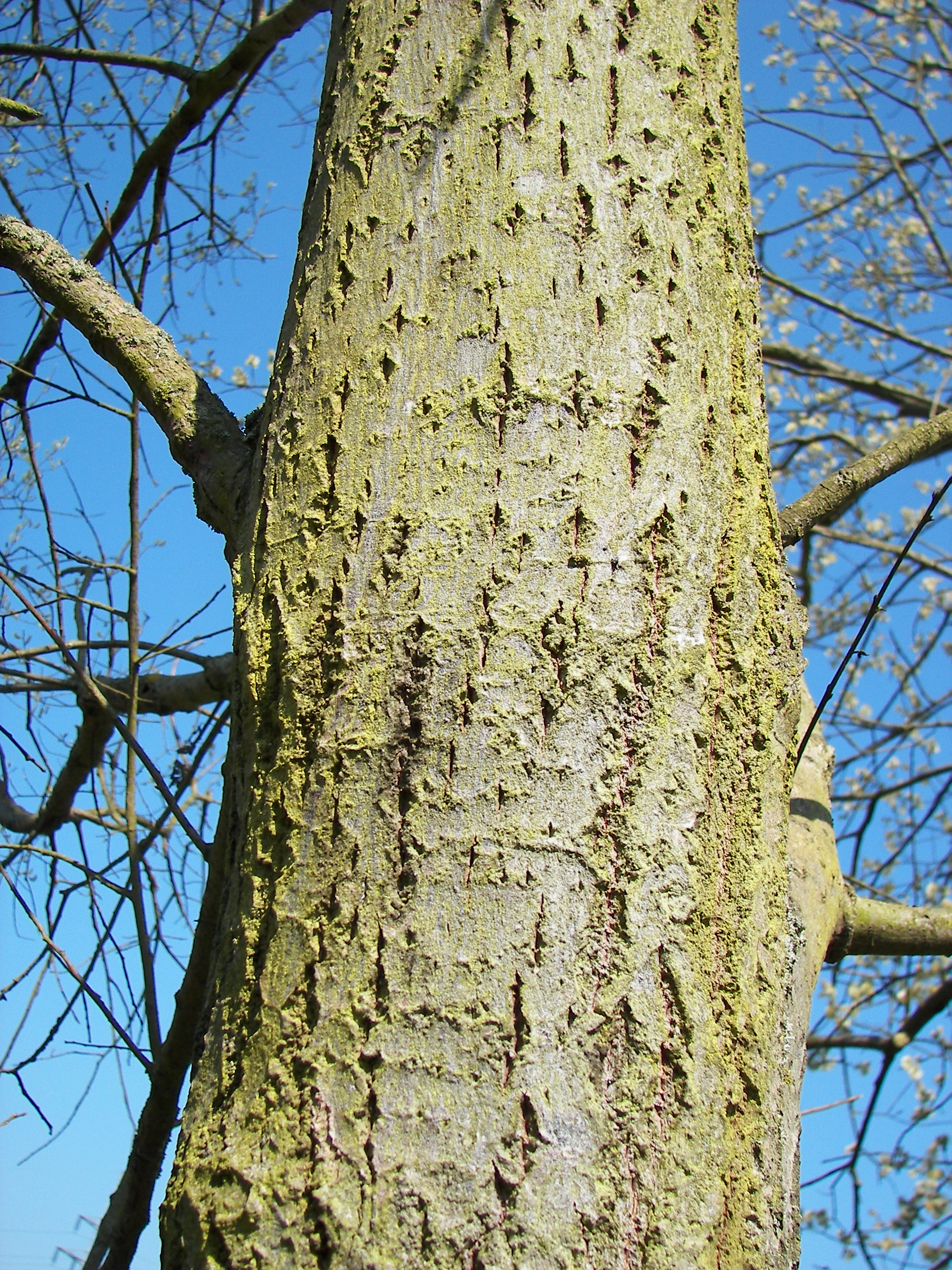 Goat Willow (Salix caprea), bark, in Kirchhain, Hesse, Germany